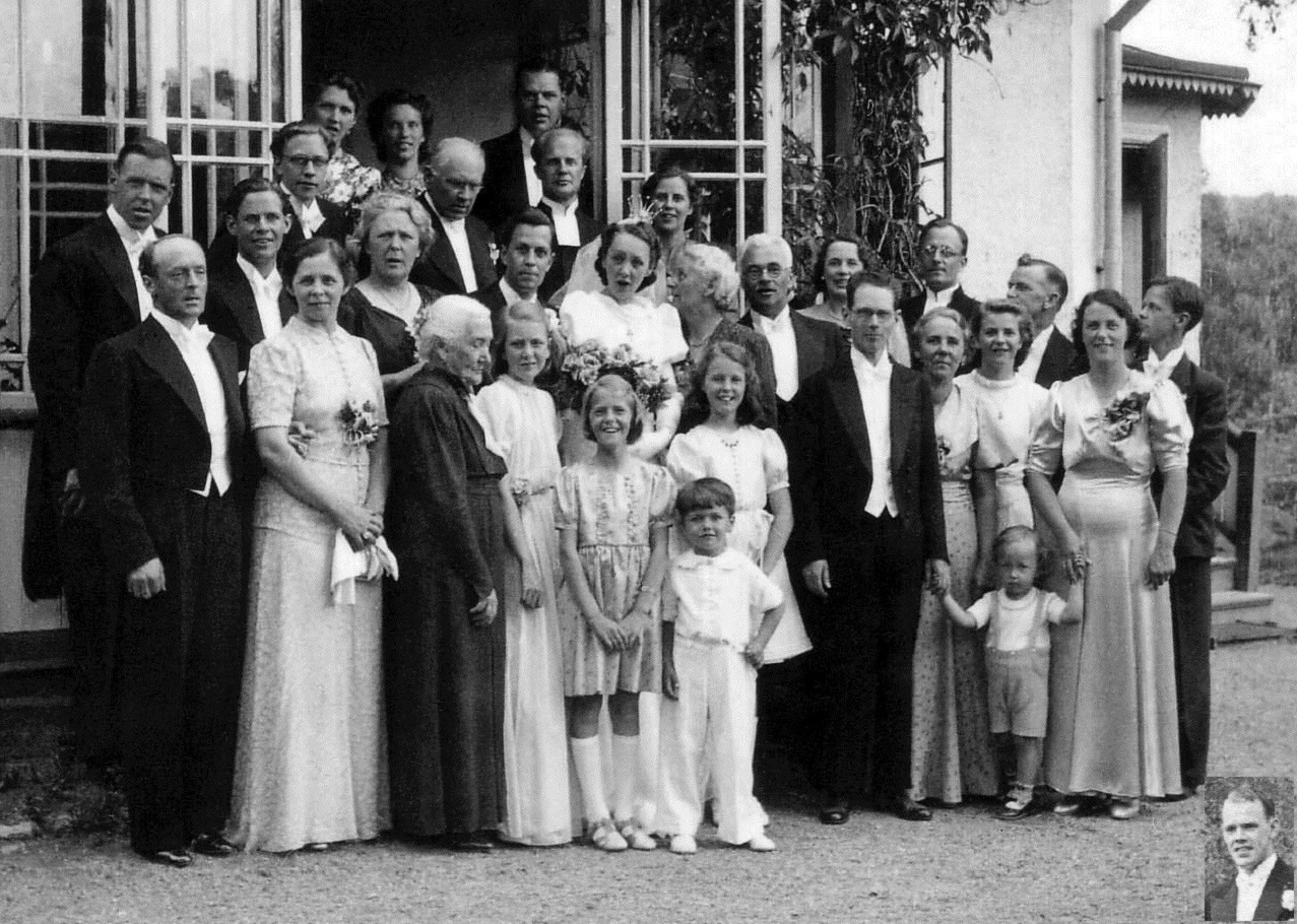 Wedding party of Birgit Anderson & C. Erik Ridderstedt (l-r: Stig Stefanson, Martin Hagström, Hans Ridderstedt, Lars Ridderstedt, Rosa Sandberg Hagström, Gudrun Anderson Öfverholm, Ragnhild Sandberg Anderson, Märta Enbäck Stefanson, Stefan Anderson, Emma Jävert Sandberg, Ingegärd Stefanson {Klum}, C. Erik Ridderstedt, Håkan Öfverholm, Nils Bolander, Anita Thorslund {Jernberg}, Birgit Anderson Ridderstedt, Bengta Ridderstedt Bolander, Hilda Mattsson Ridderstedt, Stefan Öfverholm, Berit Hagström {Ringborg}, Jacob Ridderstedt, Carola Wernerson Ridderstedt, Martin Bergman, Matts Ridderstedt, Ruth Sandberg Thorslund {Görsson}, Hjördis Thorslund {Wallin}, P. Anders Bergman, Alfred Thorslund, Margit Ridderstedt Bergman & Bengt Ridderstedt plus Bo Stefan (insert), as released by image owner FamSACPlace: Högberga, Tjärngatan 15, Ludvika, Sweden